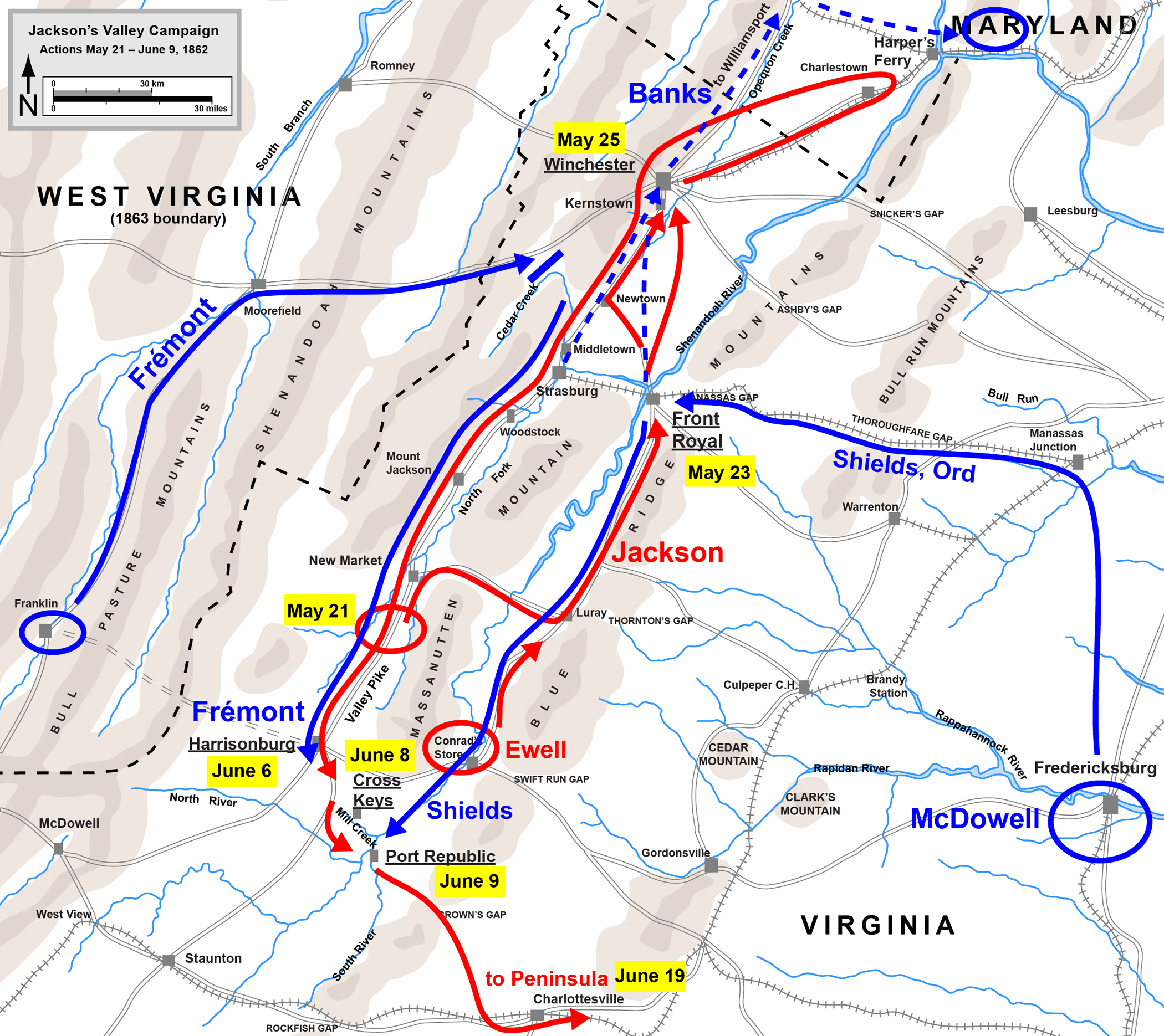 Map of Stonewall Jackson's Valley Campaign, Part 2 of 2